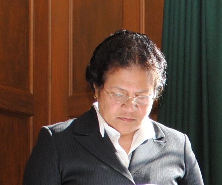 Sisilia Talagi, Niuean High Commissioner to New Zealand, at Government House Vogel in Lower Hutt, New Zealand, in 2010.